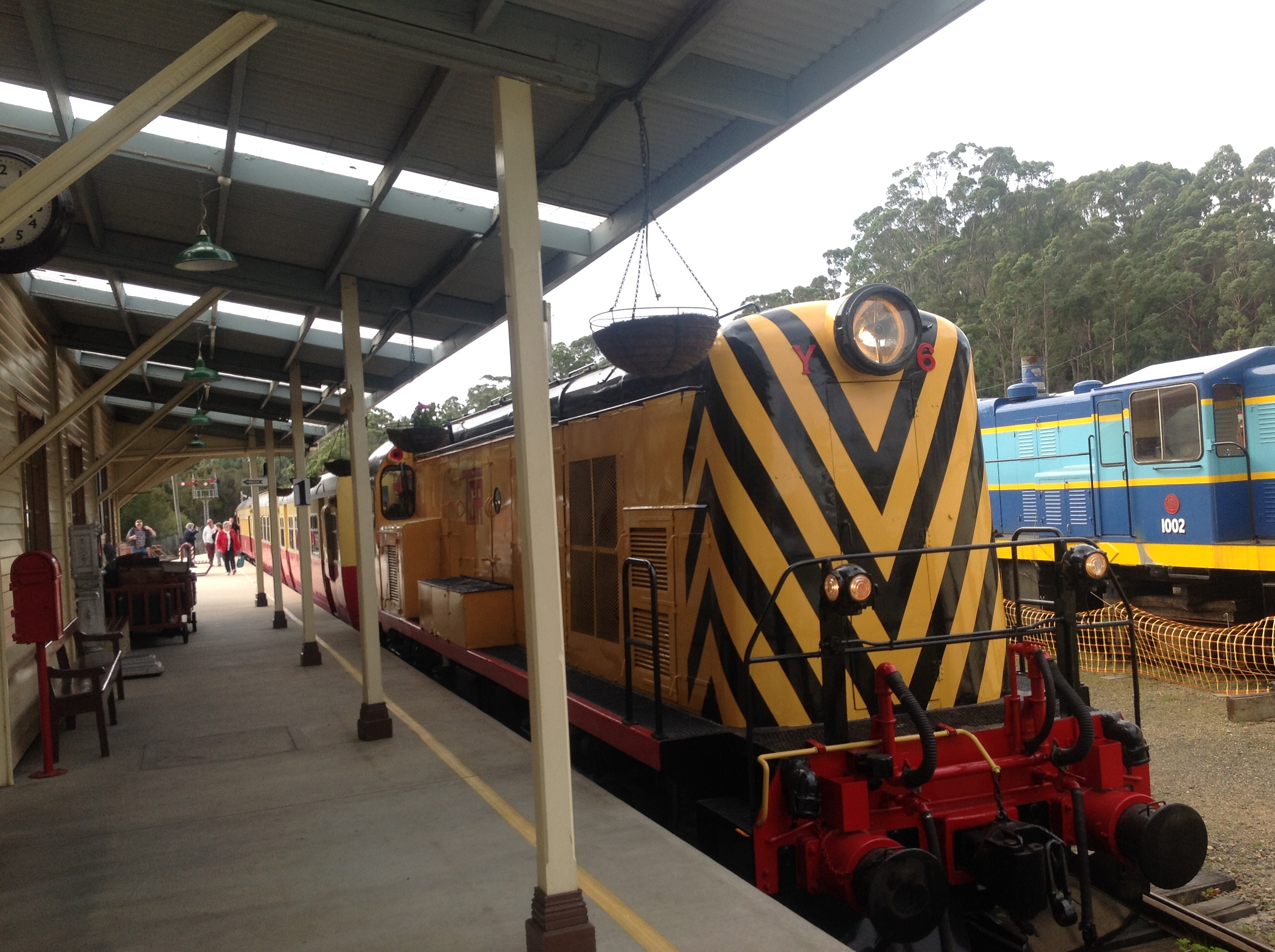 Former TGR diesel locomotive Y6 arriving at Don River Railway Station to collect passengers.